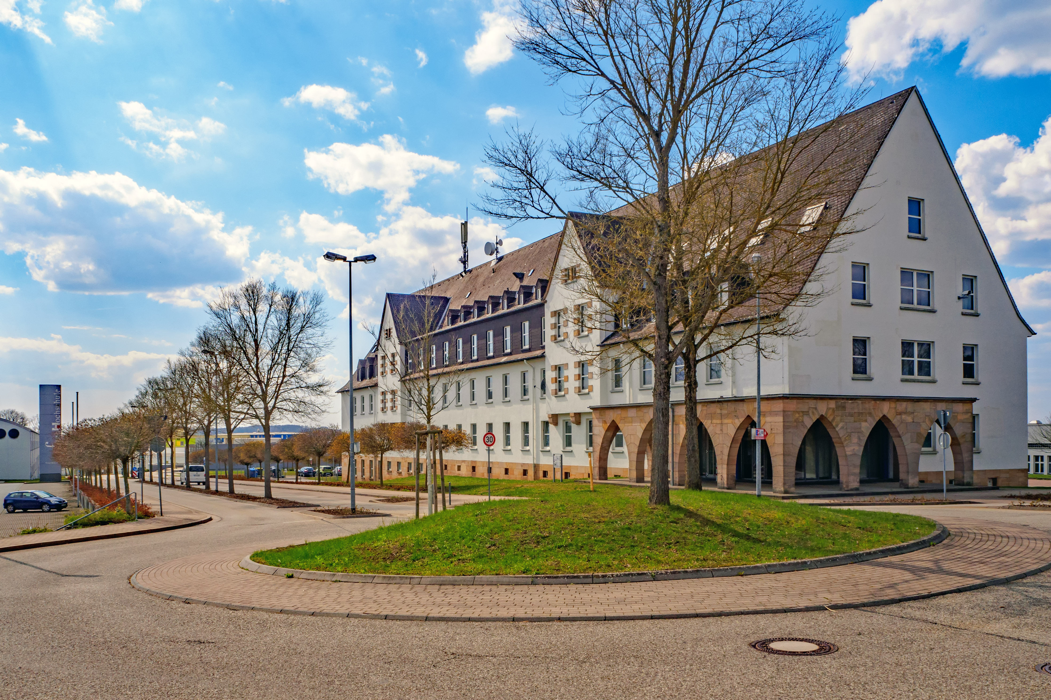 University of Applied Sciences Kaiserslautern, Campus in Zweibrücken, Building H